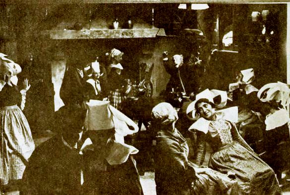 Still from the 1918 American film Woman (1918), on page 110 of the January 4, 1919 Moving Picture World. The actors are unidentified.